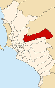 Map of Lima highlighting the Lurigancho district in Lima.